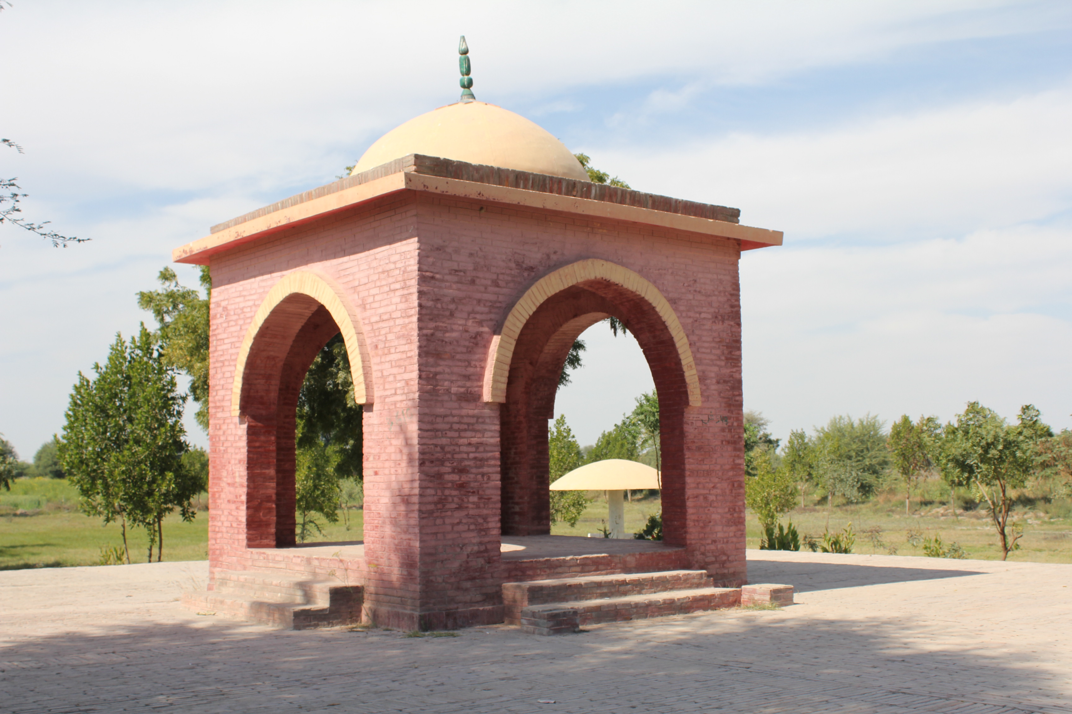 Birth place of Akbar the Great This is a photo of a monument in Pakistan identified as the SD-61